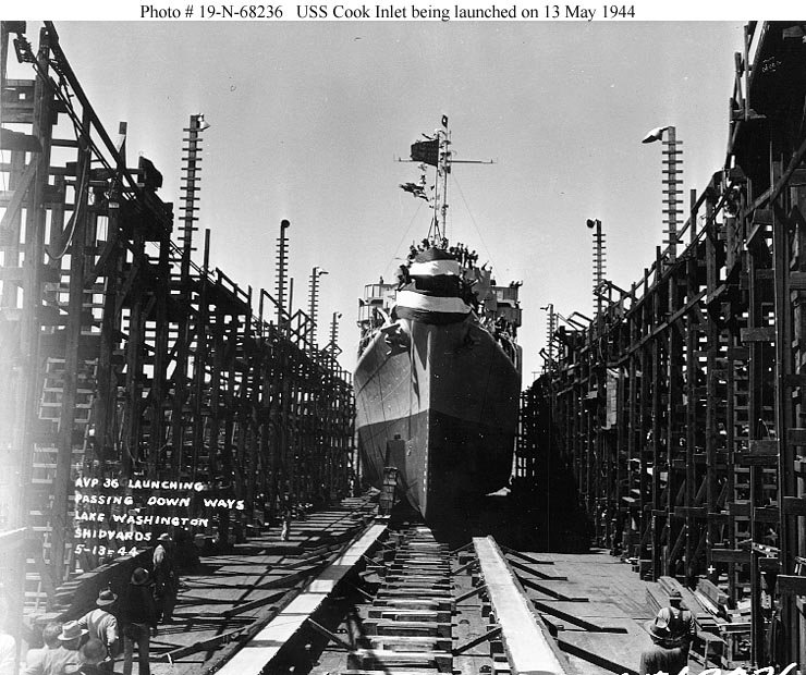 United States Navy seaplane tender USS Cook Inlet (AVP-36) is launched at Lake Washington Shipyard, Houghton, Washington, on 13 May 1944